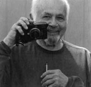 Art Shay, Photographer and Writer. Taken in Chicago Illinois in the year 2000.